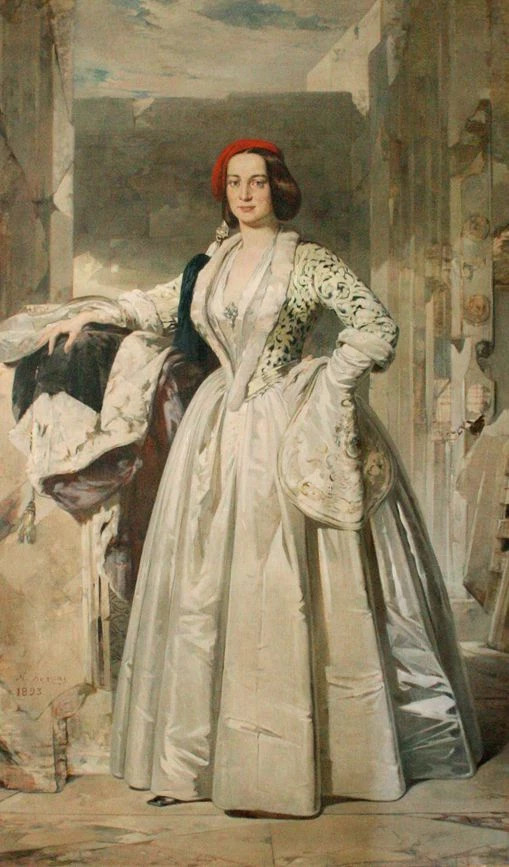 Queen Amalia of Greece wearing Greek costume